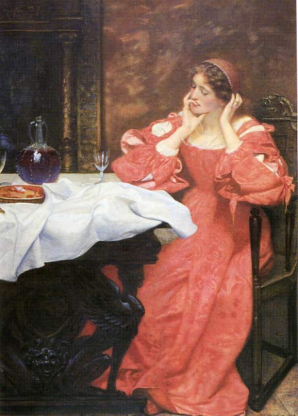 Katherina contemplates her empty plate in The Taming of the Shrew